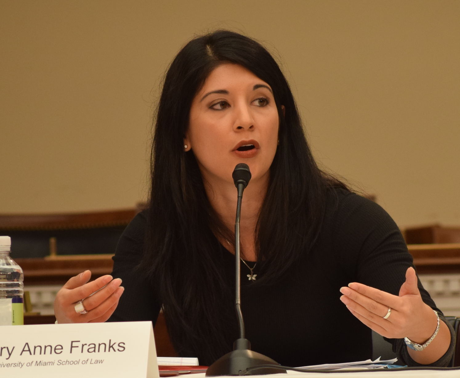 American legal scholar, author, activist, and media commentator Mary Anne Franks at the Internet Education Foundation's "Jennifer Lawrence’s Hacked Photos- A “Sex Crime?” The Legal Underpinnings of Digitally Exposed Private Images and What Congress Needs to Know"